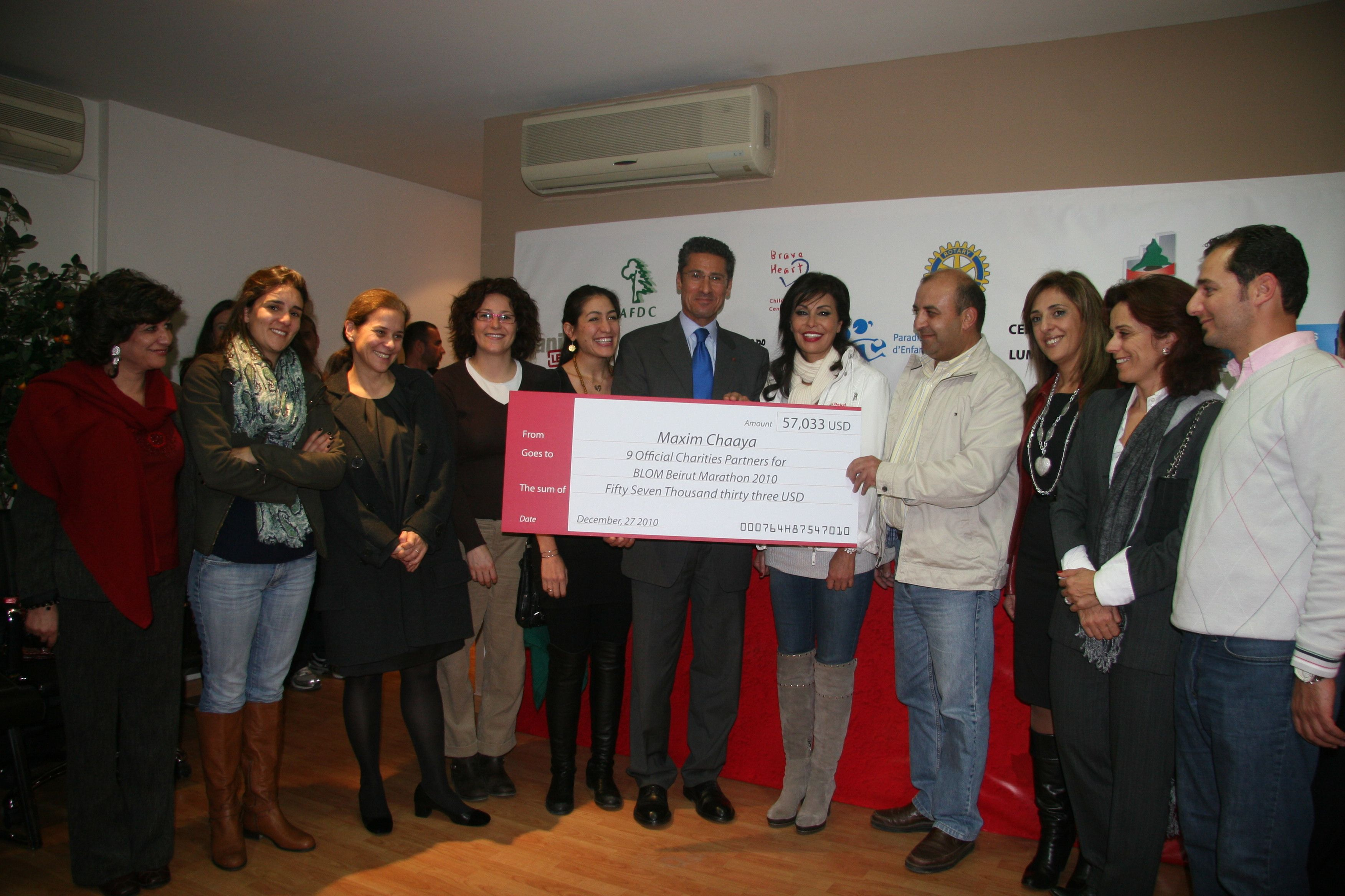 In November 2010, Maxime Chaya lead a team of 7 ambassadors (Belgium, Czech Republic, Denmark, Korea, Romania, Spain and UK) to raise funds for the nine Beirut Marathon partner charities. After rigorous training sessions headed by Max, each ambassador ran one leg of the relay (10km, 7km or 5km) while Max ran the complete marathon, alongside his fellow ambassadors, supporting them along the way. On this first year that the Beirut Marathon introduces the notion of 'running for a cause' Maxime was able to raise $57,033 which he distributed equally among the nine NGOs. Organizer of the marathon: May El-Khalil (5.f.r.)